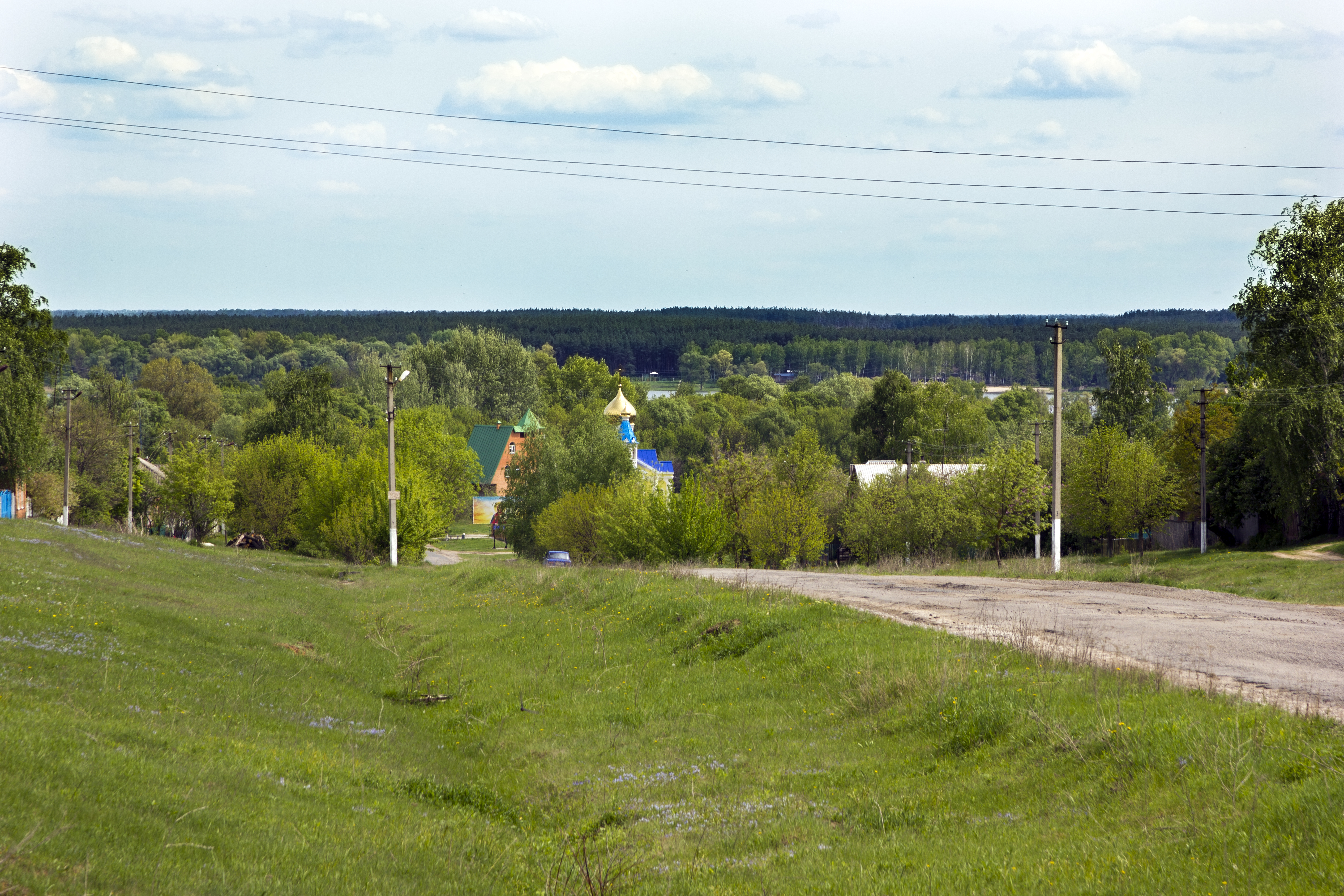 Rubizhne Landscape (3)